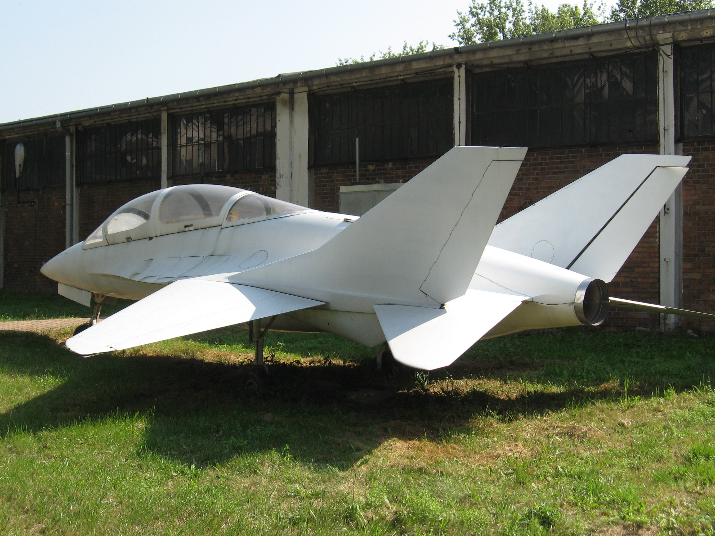 A mockup of the EM-10 Bielik light military training aircraft at the Polish Aviation Museum, Kraków